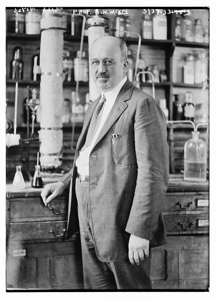 Ralph Harper McKee in 1923 at Columbia University This work is from the George Grantham Bain collection at the Library of Congress. According to the library, there are no known copyright restrictions on the use of this work.